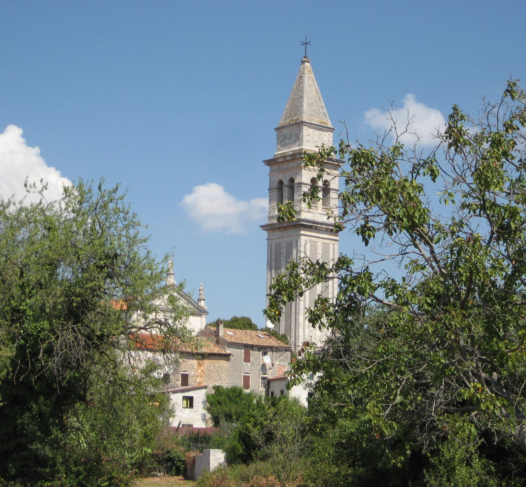 Vodnjan,_Northwest_Croatia